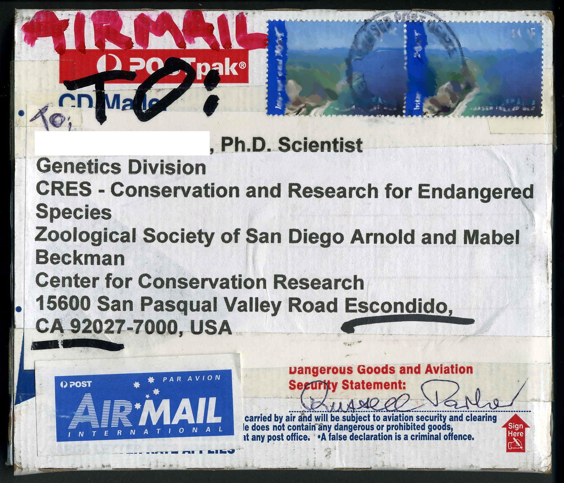 An example of the Australia Post POSTpak CD mailer with the double International postage. Sent via airmail from Australia to the U.S., 2007.